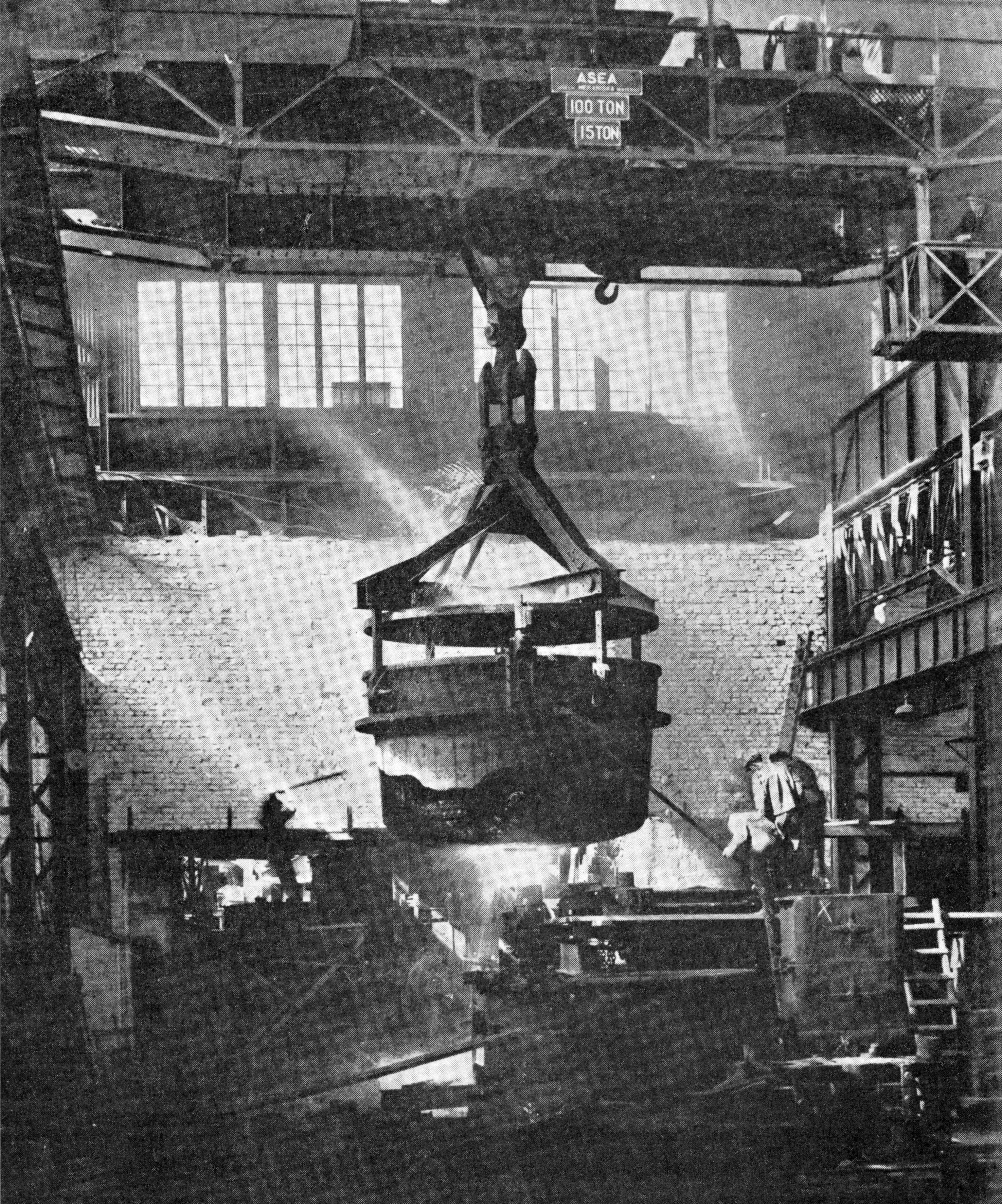 Casting at Domnarvet iron works in Sweden. The Kaplan-type hub for the turbin at Vargö power plant was cast in 1932.